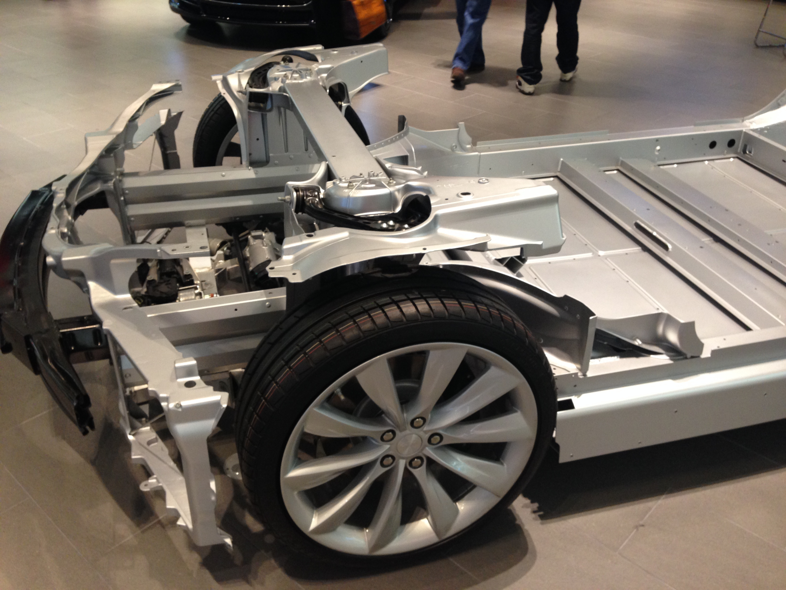 Detail from the subframe of a Tesla Model S